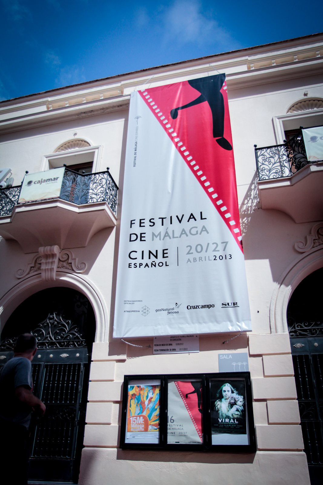 Málaga Spanish Film Festival 2013